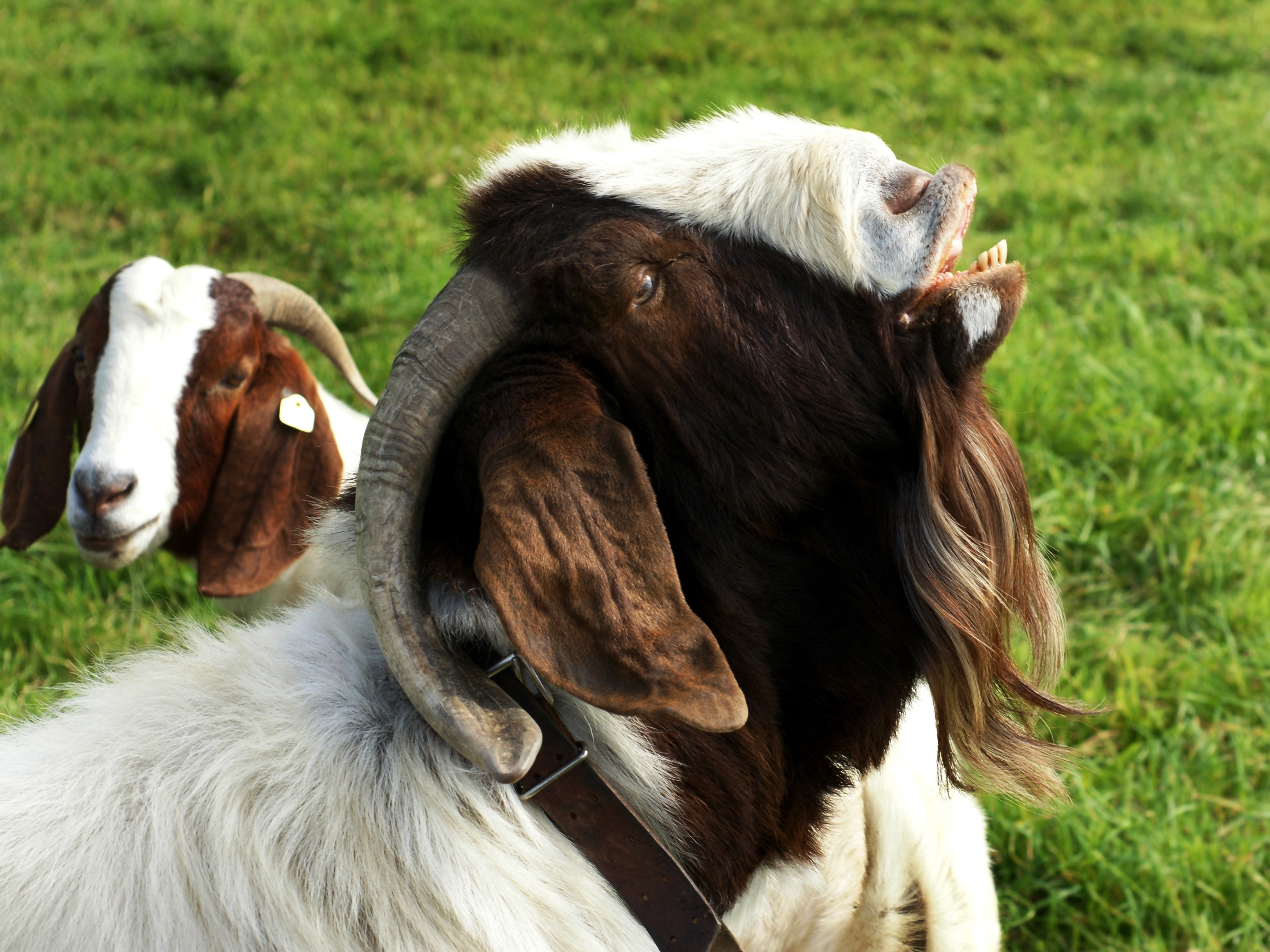 The flehmen response by billy goat. The Boer goat was developed in South Africa in the early 1900s for meat production. Their name is derived from the Dutch word "Boer" meaning farmer.